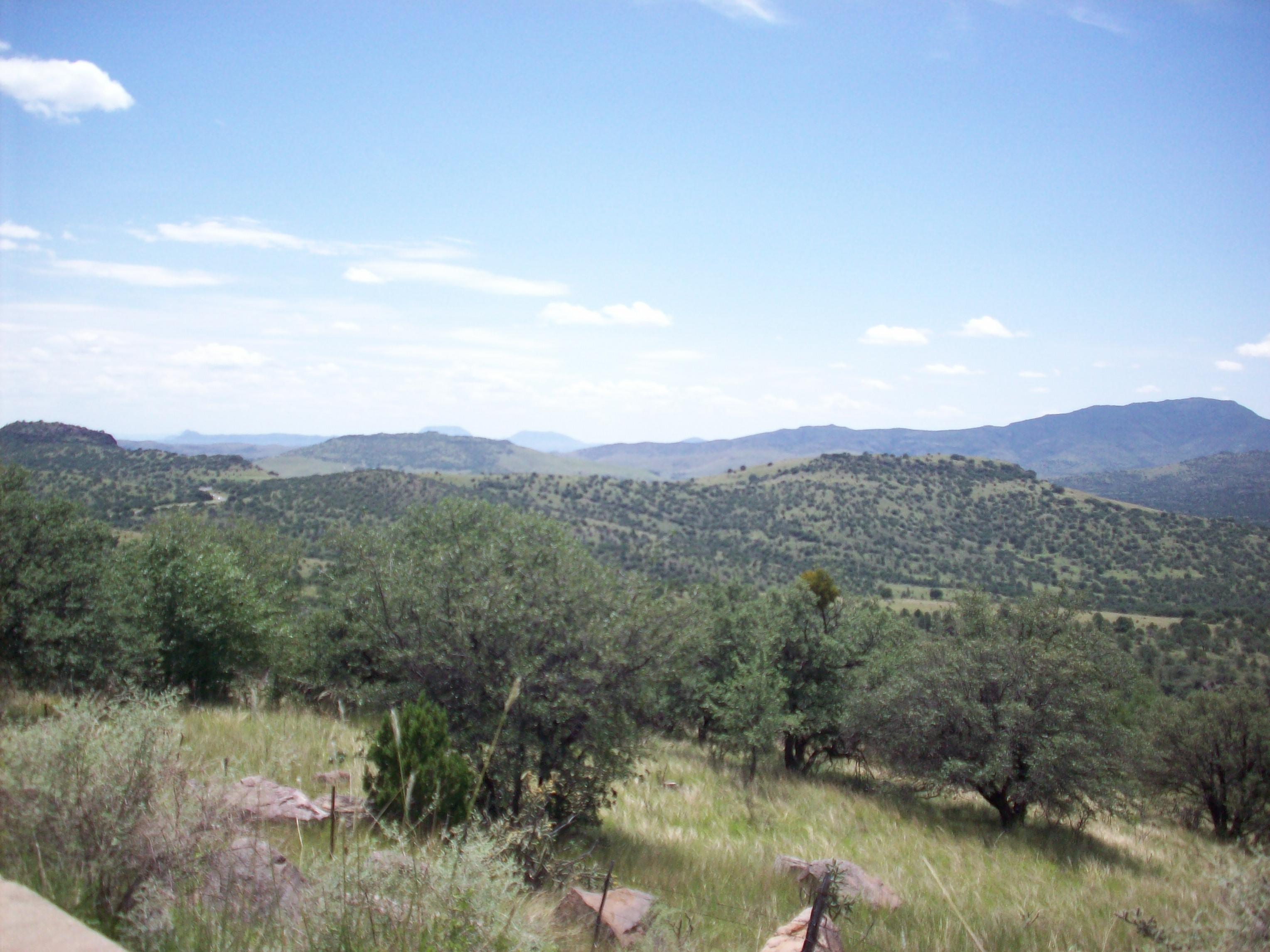 View of Davis Mountains from State Highway 118 from Mt. Locke with SH 118 downhill showing to the left